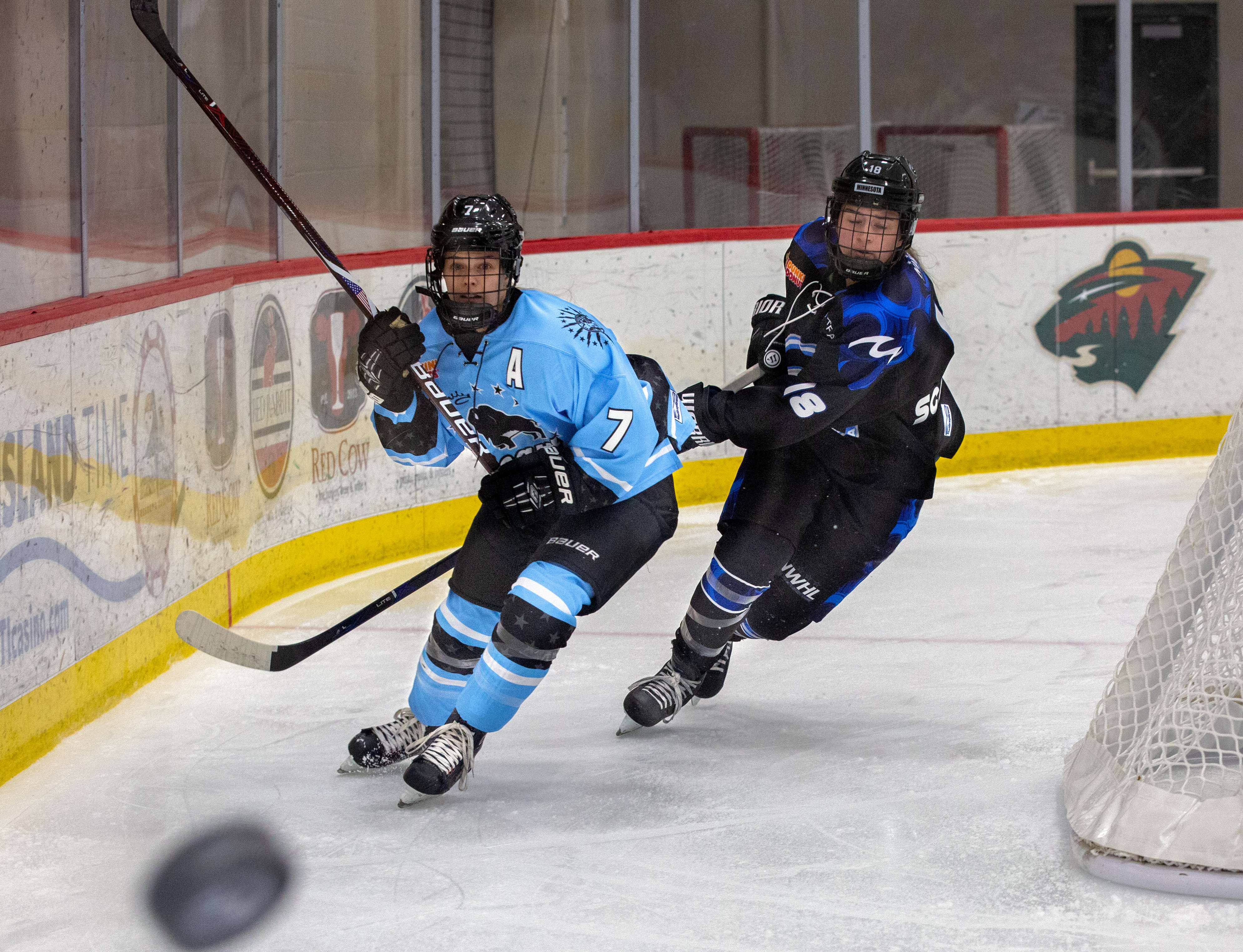 Buffalo Beauts Emily Pfalzer (7) & Minnesota Whitecaps Amy Schlagel (18)